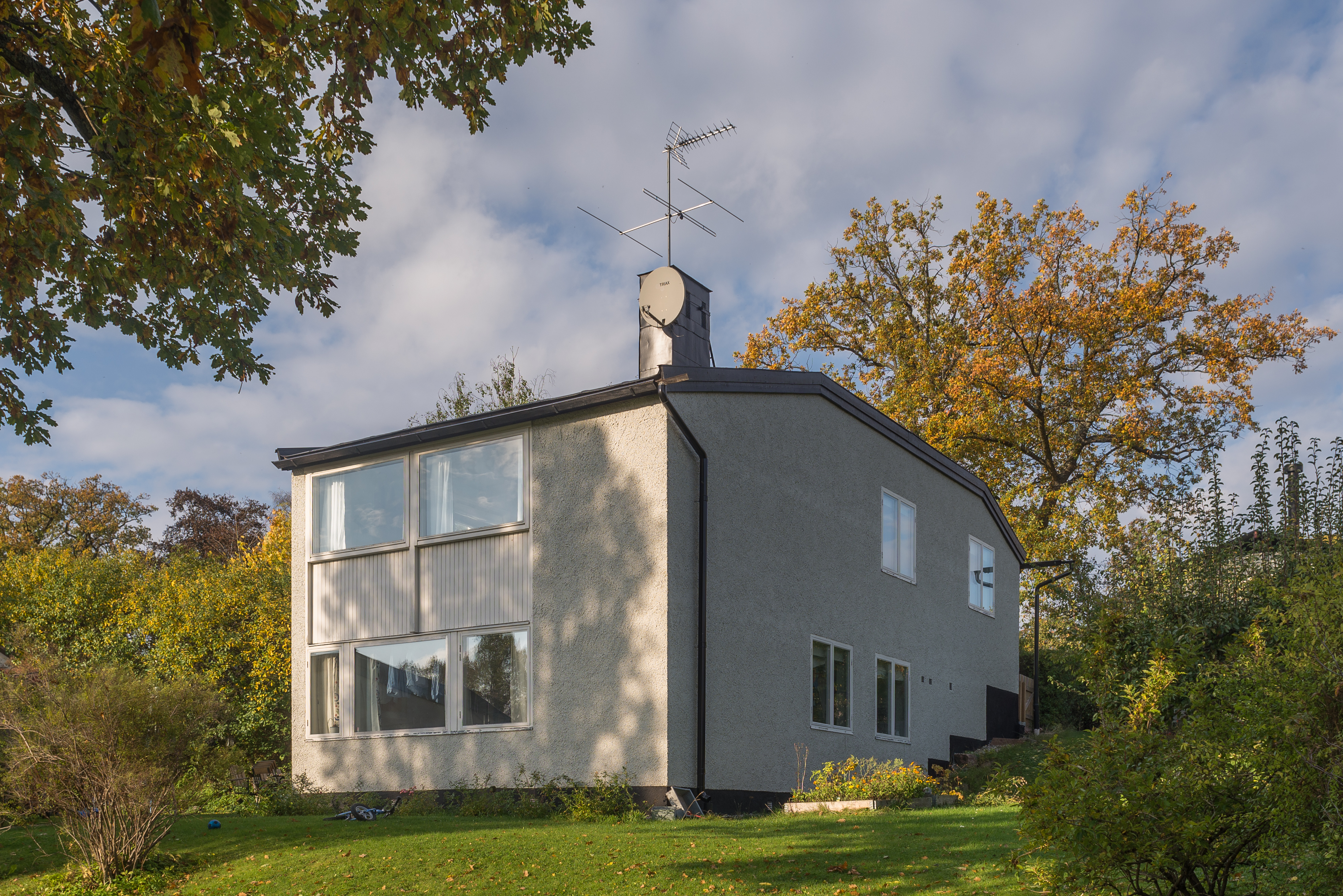 Villa Friis built 1952–1955. Architect: Peter Celsing. Drottningholm, Stockholm.